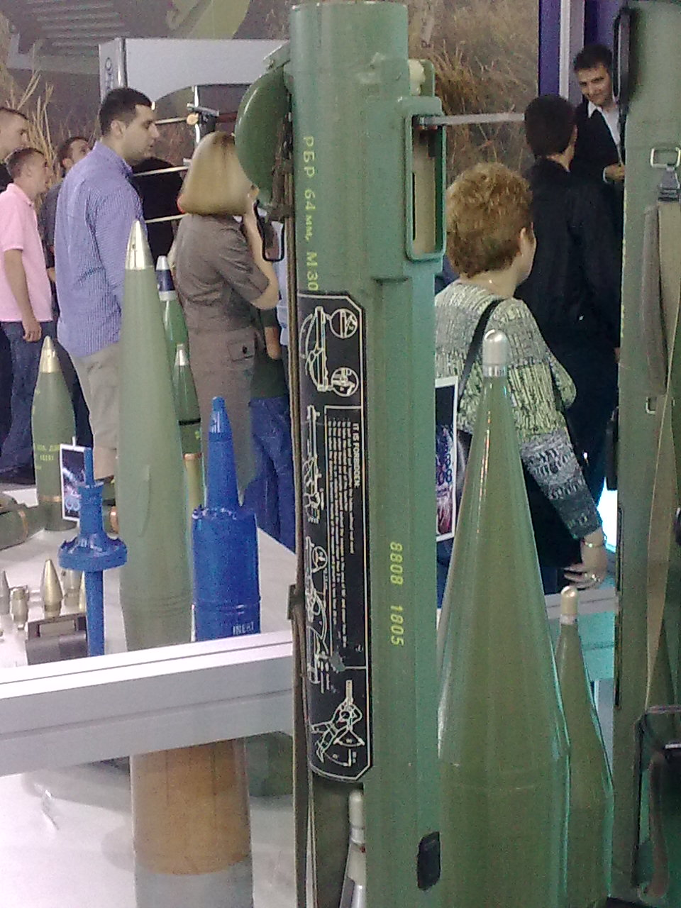 M80 Zolja AT launcher (middle) next to some rockets on the Belgrade military fair in 2009.